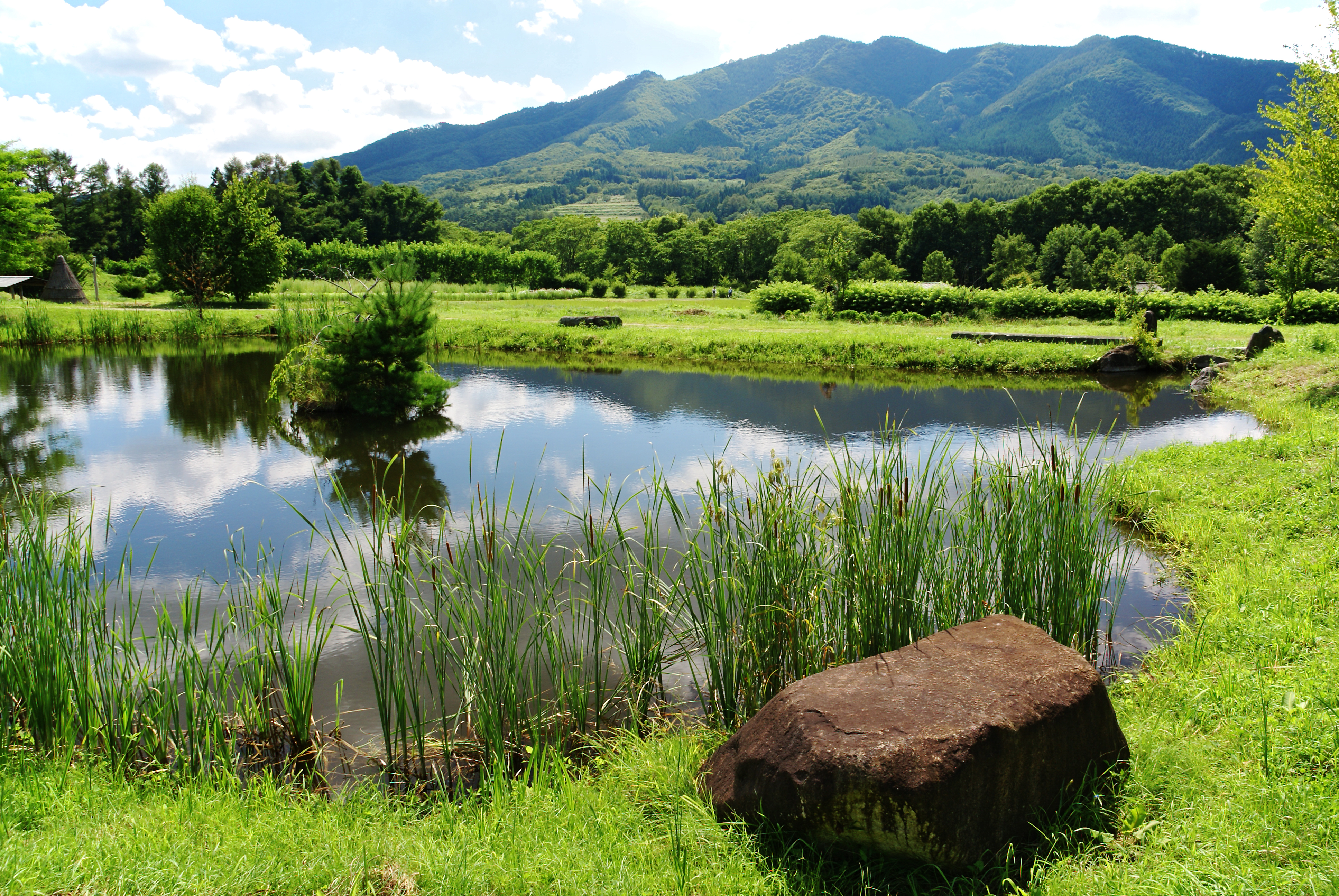 Tono Furusato-mura in Tono, Iwate prefecture, Japan